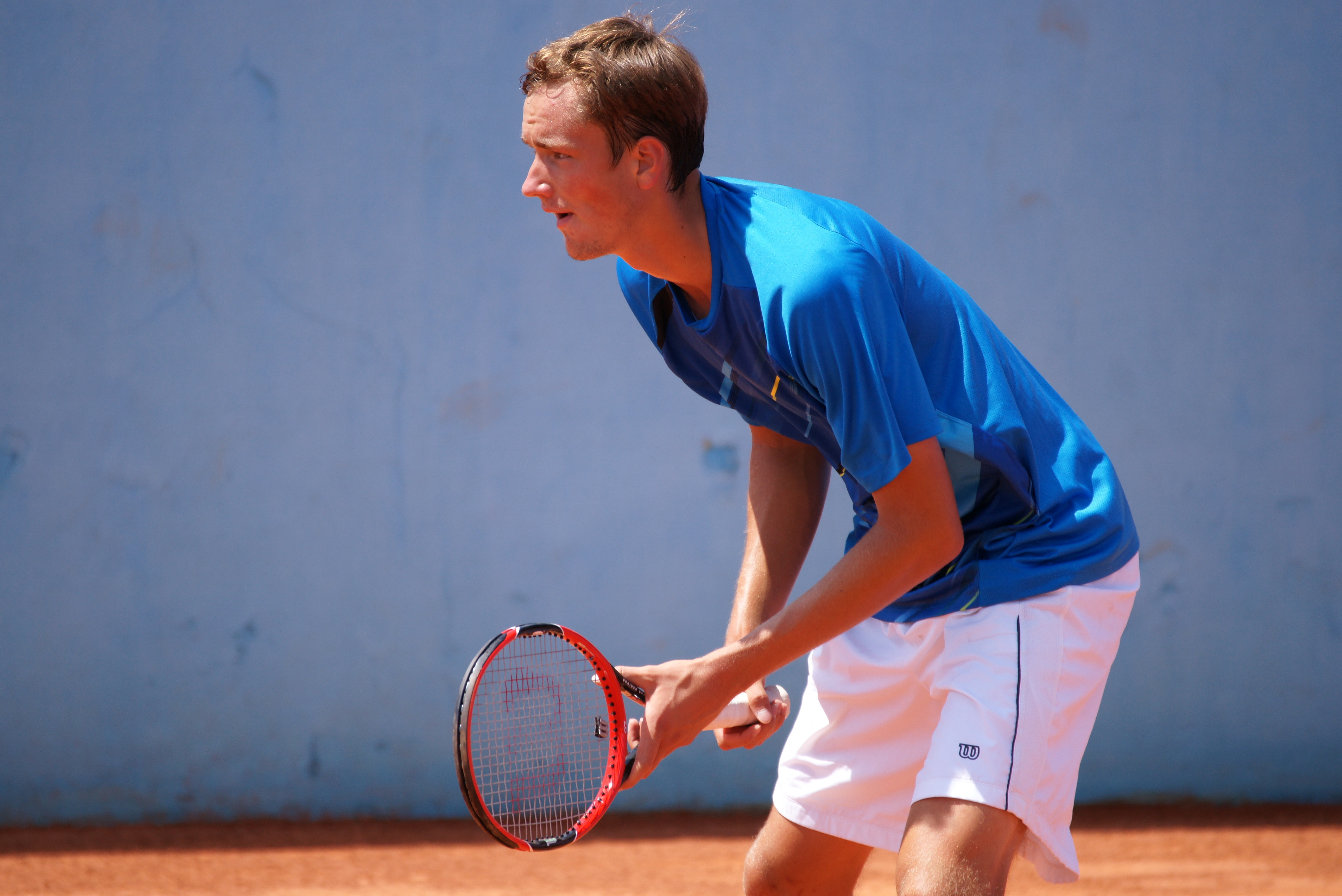 Daniil Medvedev, 2015 ATP Nice